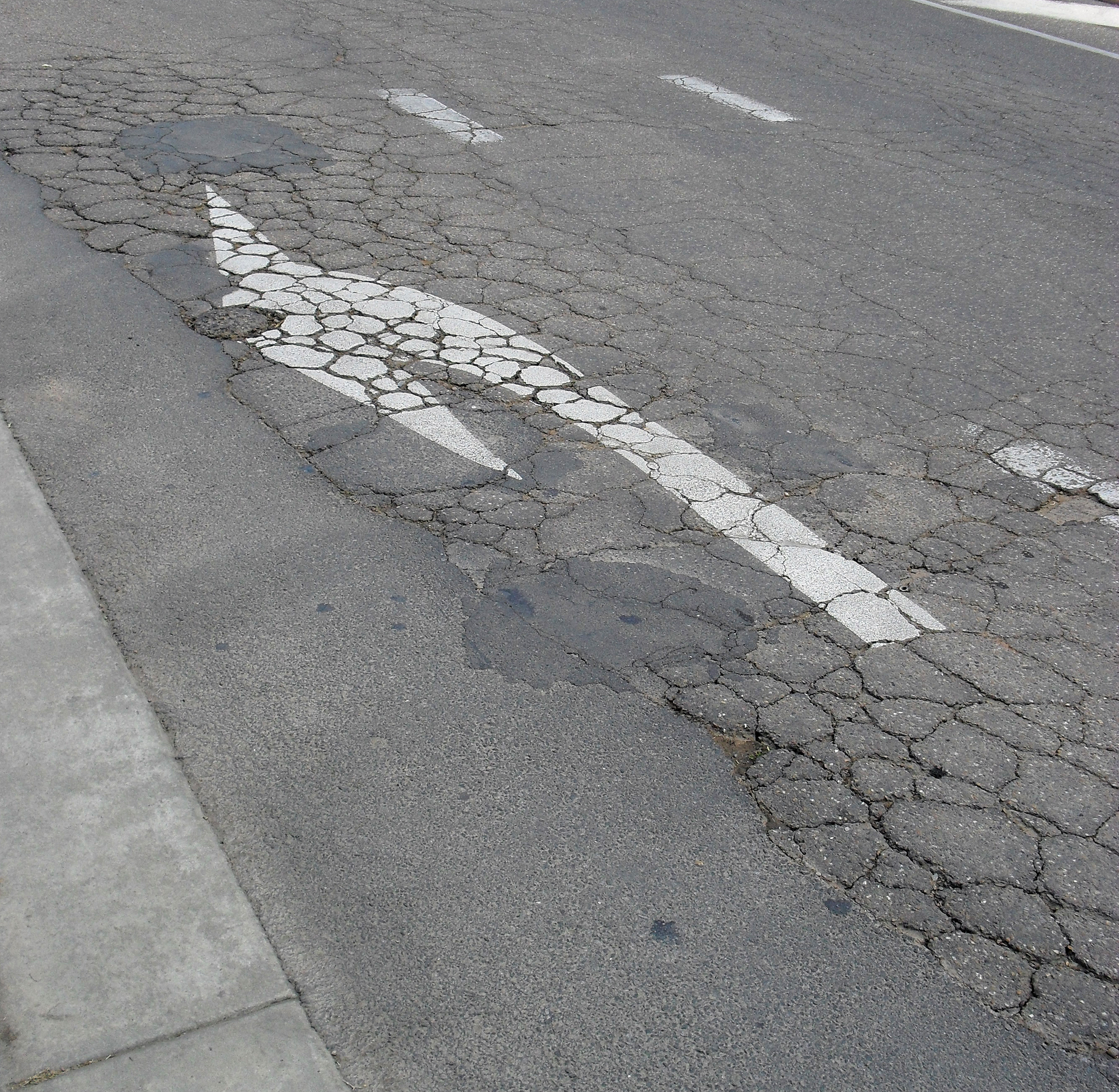 Deteriorated asphalt.